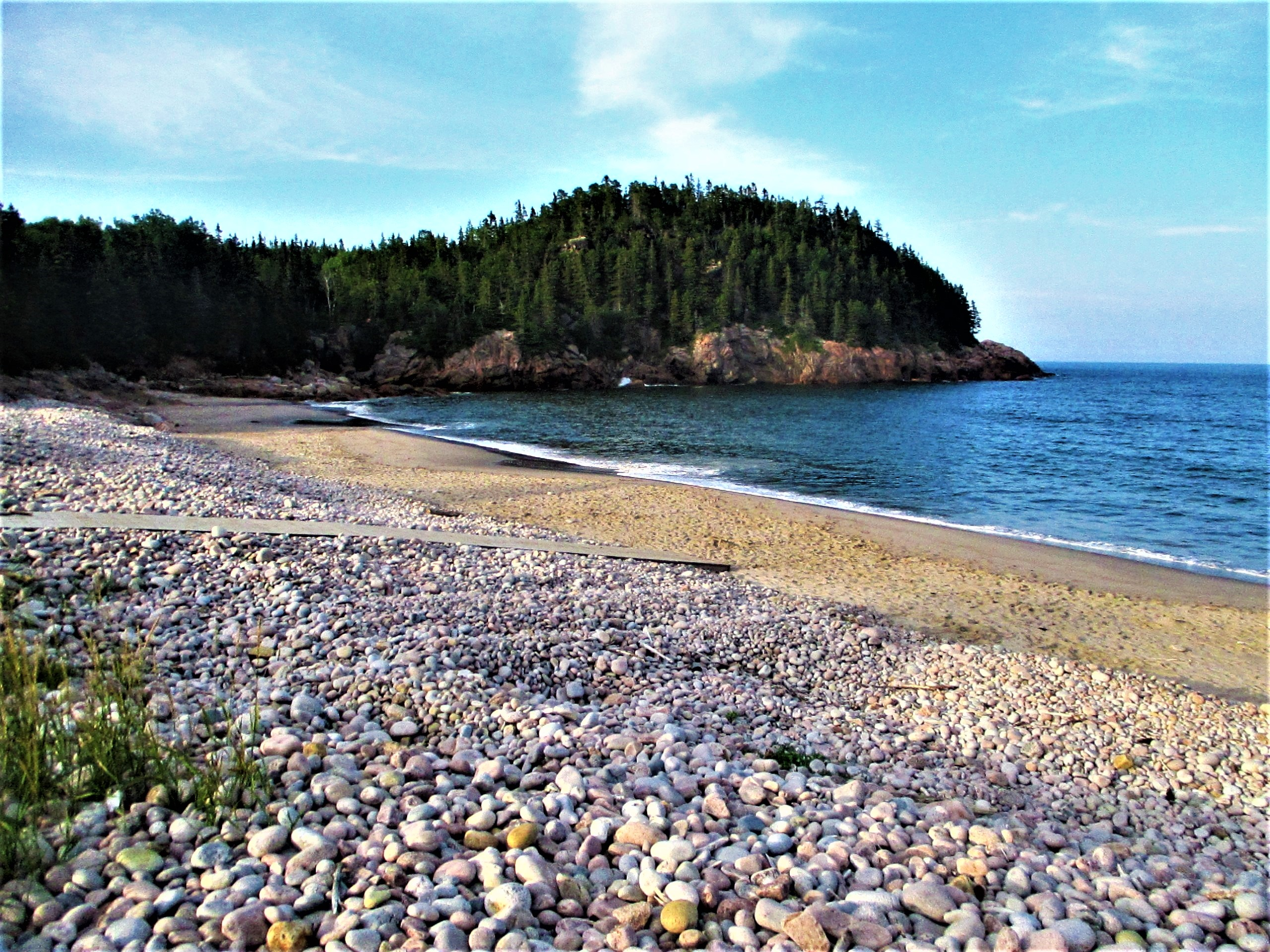 Cape Breton Highlands National Park- Cabot Trail- Black Brook Beach- Nova Scotia This photo was taken in a protected area in Canada, Wikidata item Cape Breton Highlands National Park (Q253517)